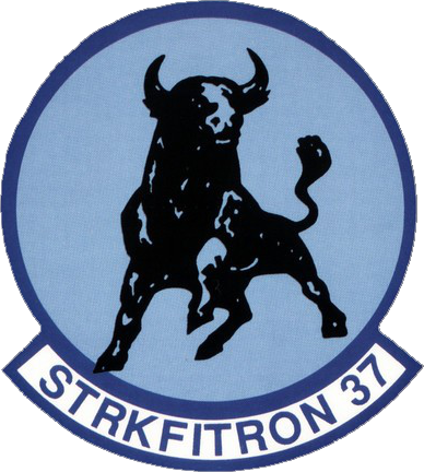 Insignia of the U.S. Navy Strike Fighter Squadron 37 (VFA-37) "Bulls".